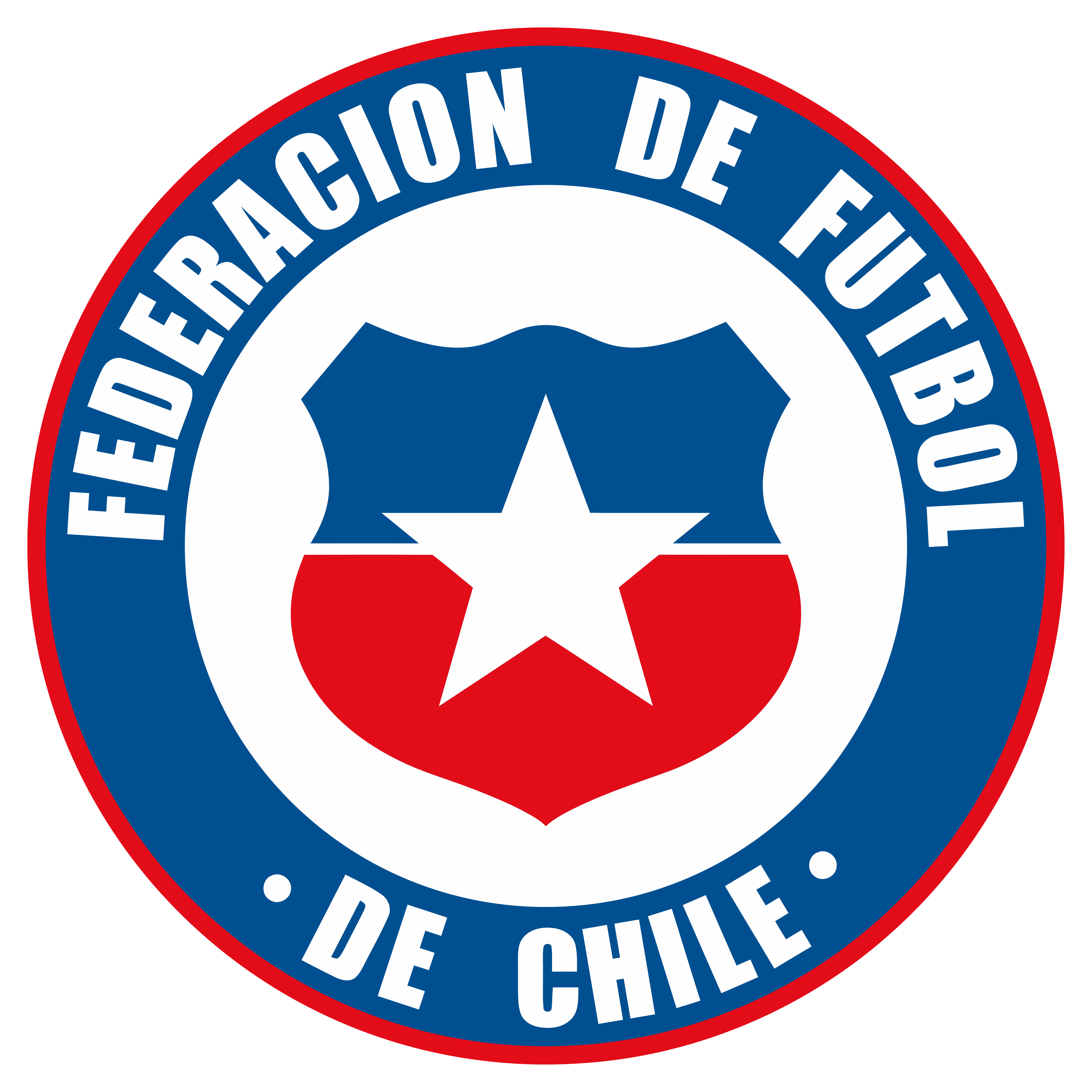 Logo of Chilean Football Federation.